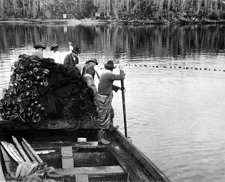 On verso of image: Wash. - Gill netters In Folder 215 Subjects (LCTGM): Fishermen--Washington (State) Subjects (LCSH): Gillnetting--Washington (State); Fishing boats--Washington (State)